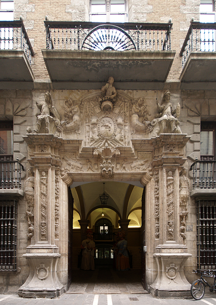 Door of Palacio de Ezpeleta in Calle Mayor, Pamplona